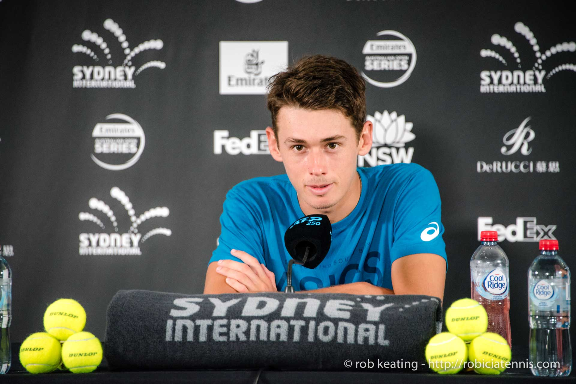 Sydney, Australia - 9 January 2018: Alex de Minaur in his second round match press conference at the Sydney International tennis. (Photo by Rob Keating/robiciatennis.com)